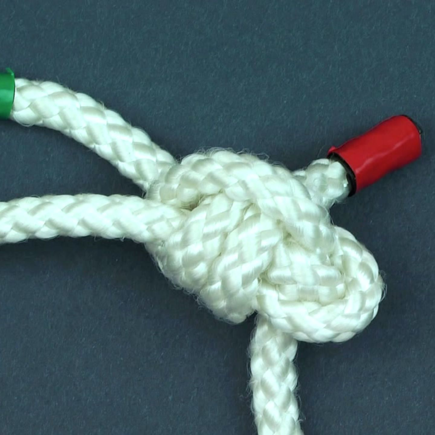 one of many knots